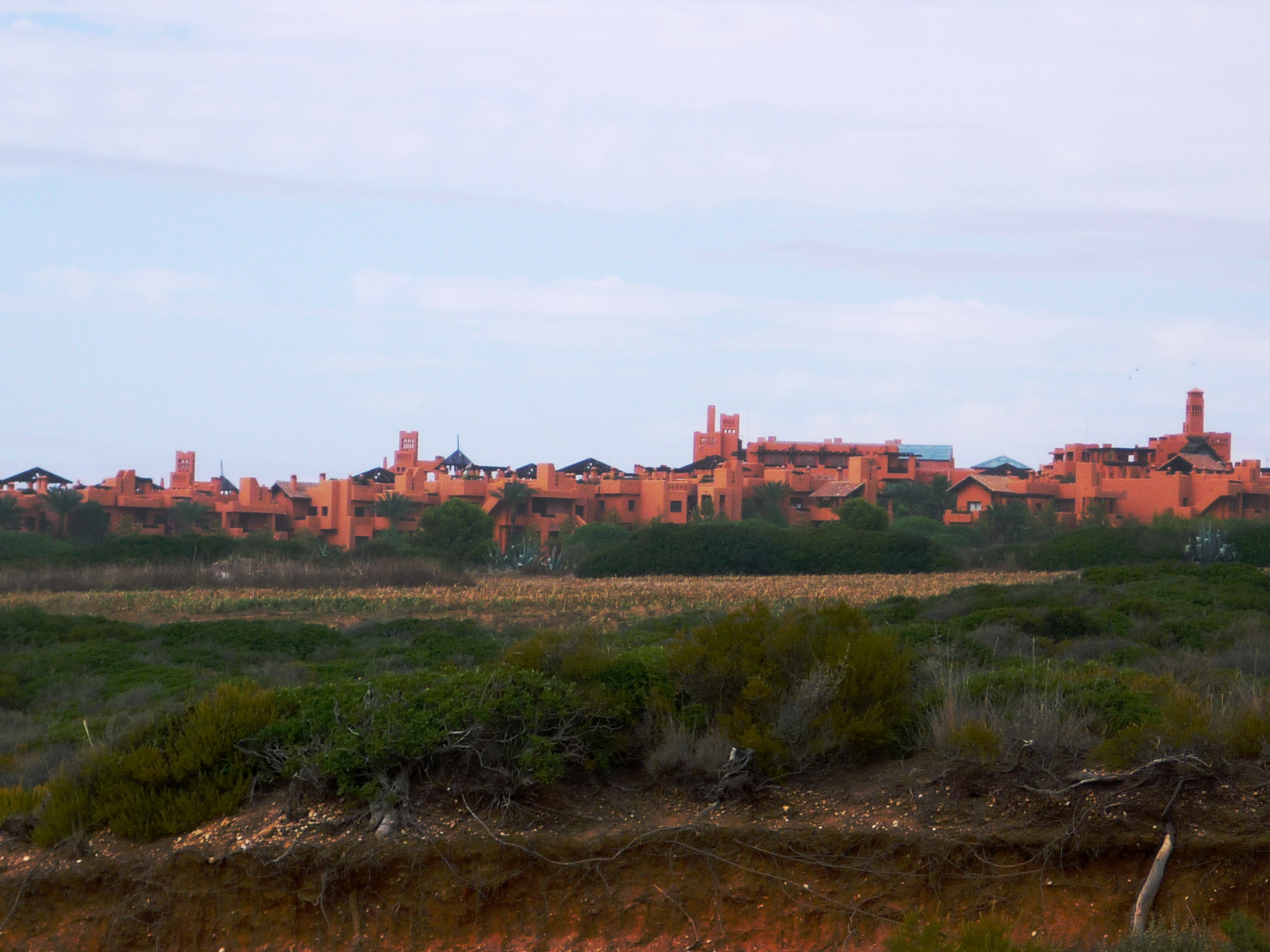 Roter Toskanastil in der Skyline der Hotelanlagen von Novo Sancti Petri. See more about in a related article (DE) of my travelblog.